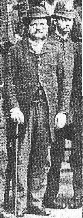 Crop of original group photograph taken of H Division at Leman Street police station in London c.1886. Authors Wolf Vanderlinden (in Ripper Notes #26, July 2006) and Donald Rumbelow (in Jack the Ripper: SCotland Yard Investigates, released in October of 2006) tentatively identify this as Abberline. He reasons that the photograph was taken while Abberline was a detective officer at the station. The bowler-hat and mutton-chop whiskers match contemporary sketches and descriptions of Abberline. As an inspector he would have had a prominent position in any photograph taken; this gentleman is standing in the front row. This identification is in dispute, however, as a number of authors have pointed at the man to the right in this photo (this man's left) as being Abberline, as that man also has similar facial hair, has a cane in the correct hand, and, most importantly, more closely matches a contemporary illustration of Abberline.